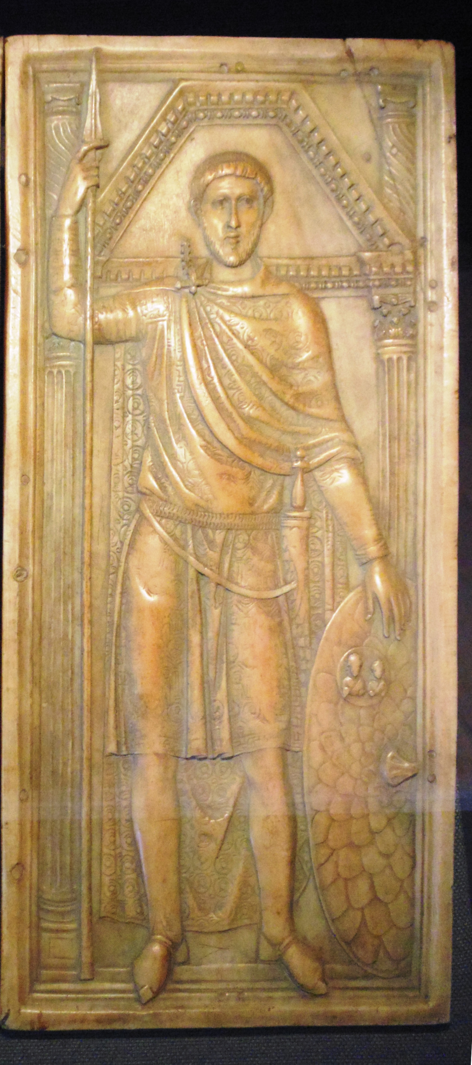 Valve from the Dyptich in Monza representing a Late Roman general traditionally identified with Stilicho